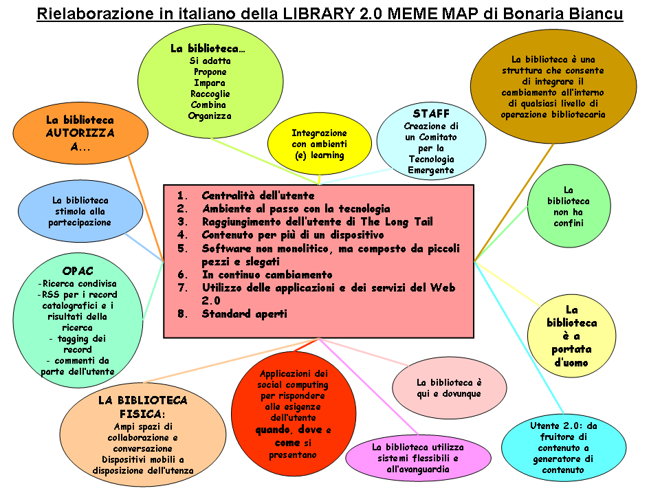 Italian version of the Library 2.0 Meme Map by Bonaria Biancu